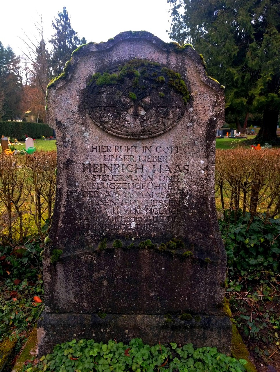 Honorary grave Heinrich Haas Trier main cemetery